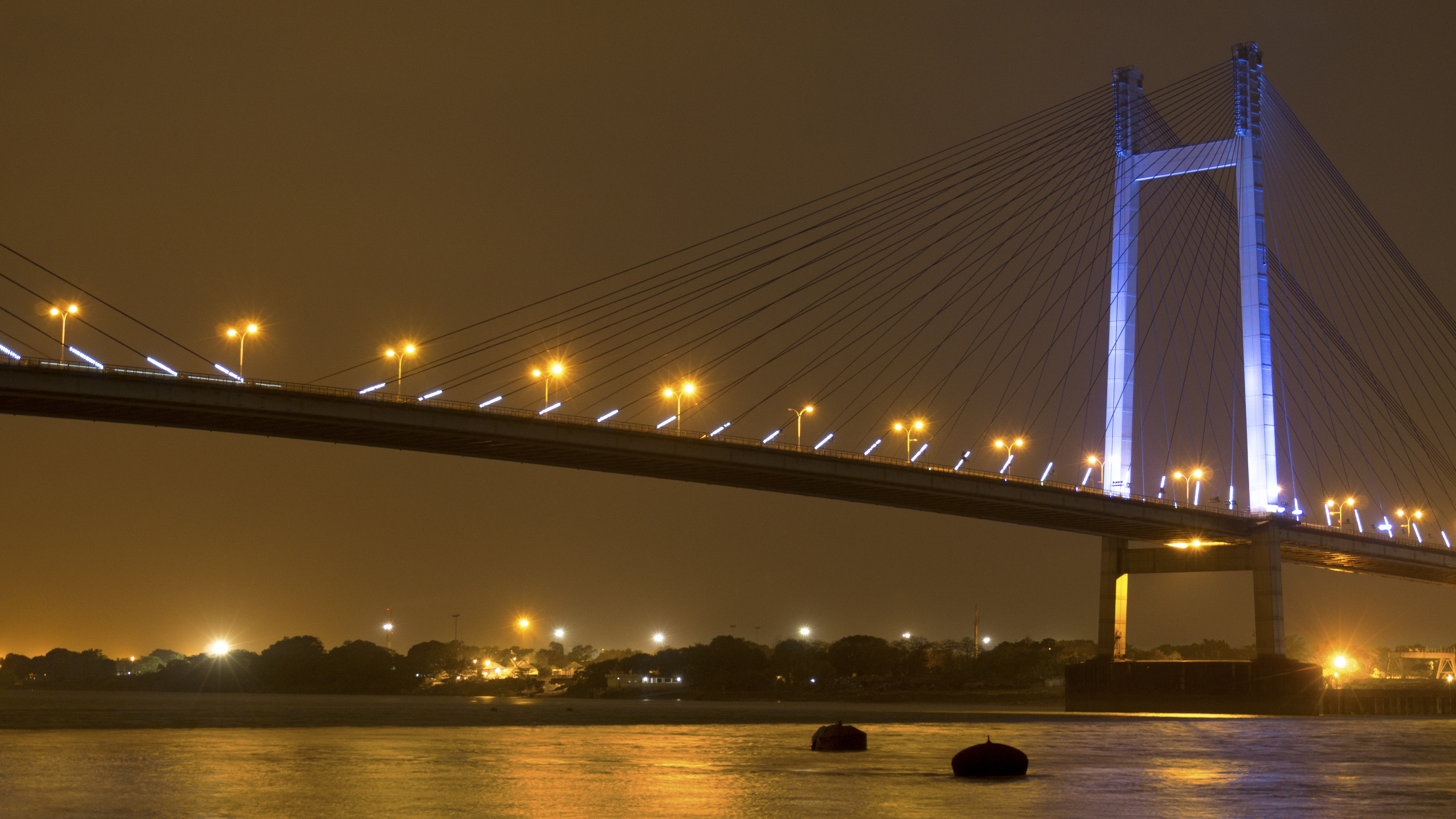 Second Hoogly bridge shot at night from Prinsep Ghat.